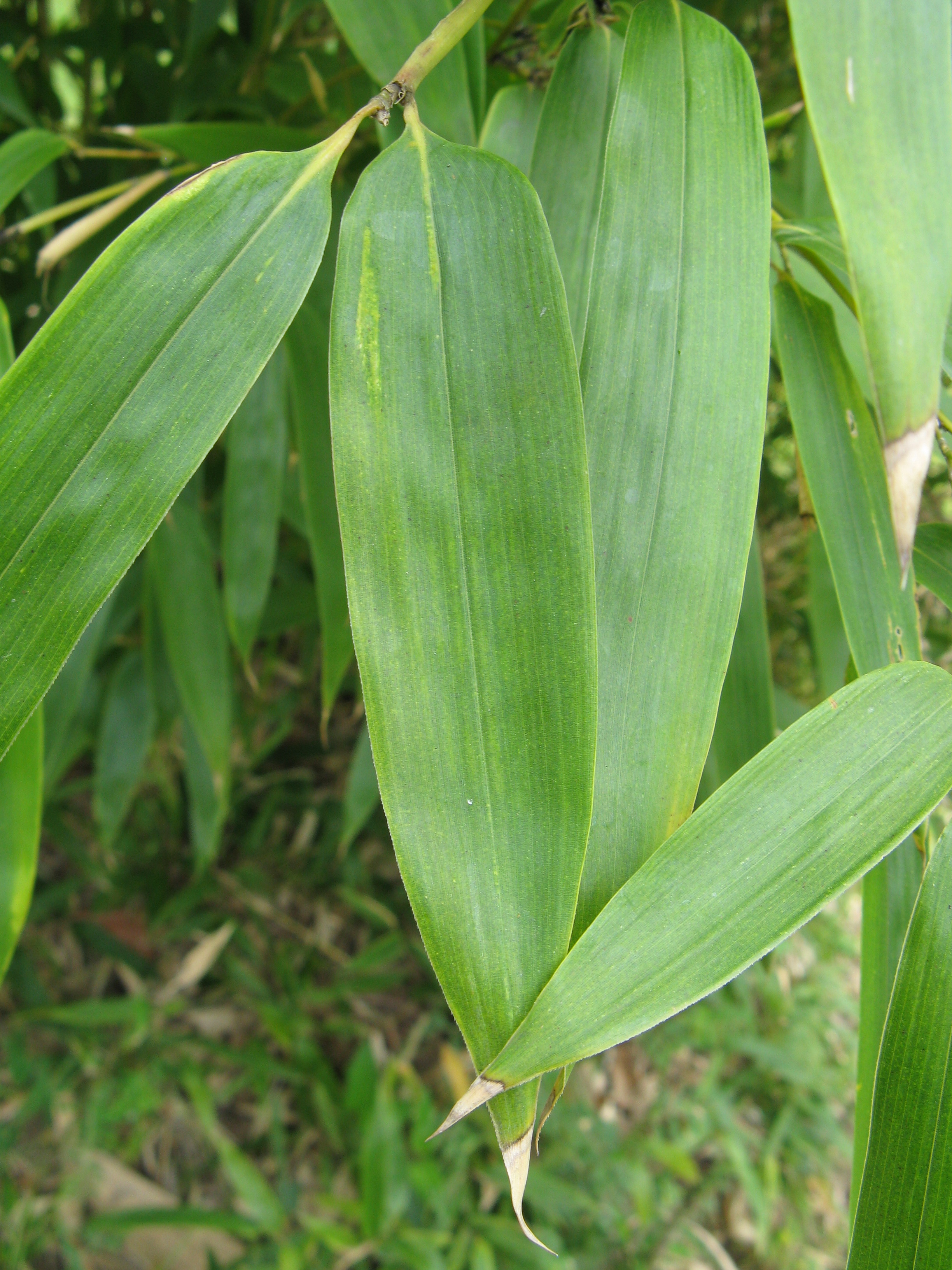 Phyllostachys bambusoides f. castillonis